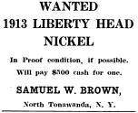 Ad placed by Samuel Brown in numismatic magazines, offering to buy 1913 Liberty Head nickels